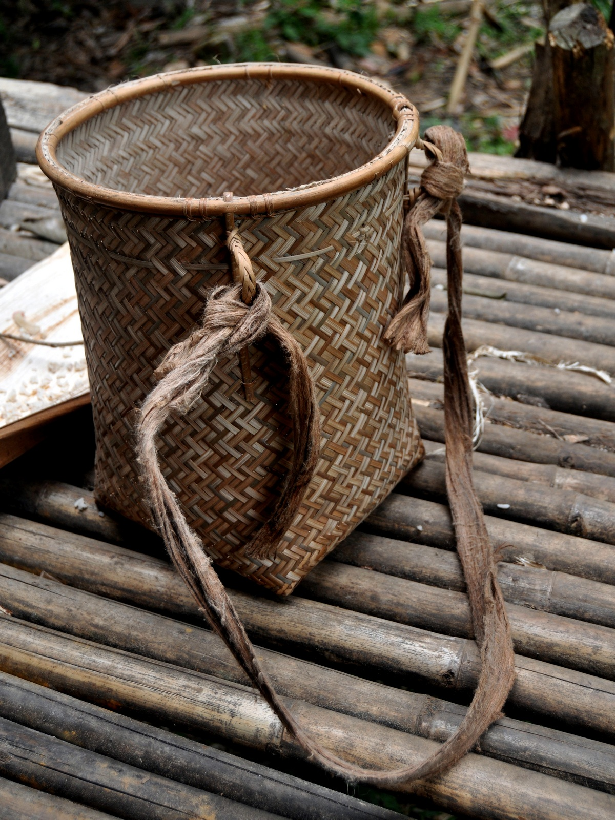 Kebuduk, a traditional basket from Dayak tribe, using kapuak fibre (from the inner bark of torap, Artocarpus elasticus) as its handling rope. From Ketapang, West Kalimantan, Indonesia